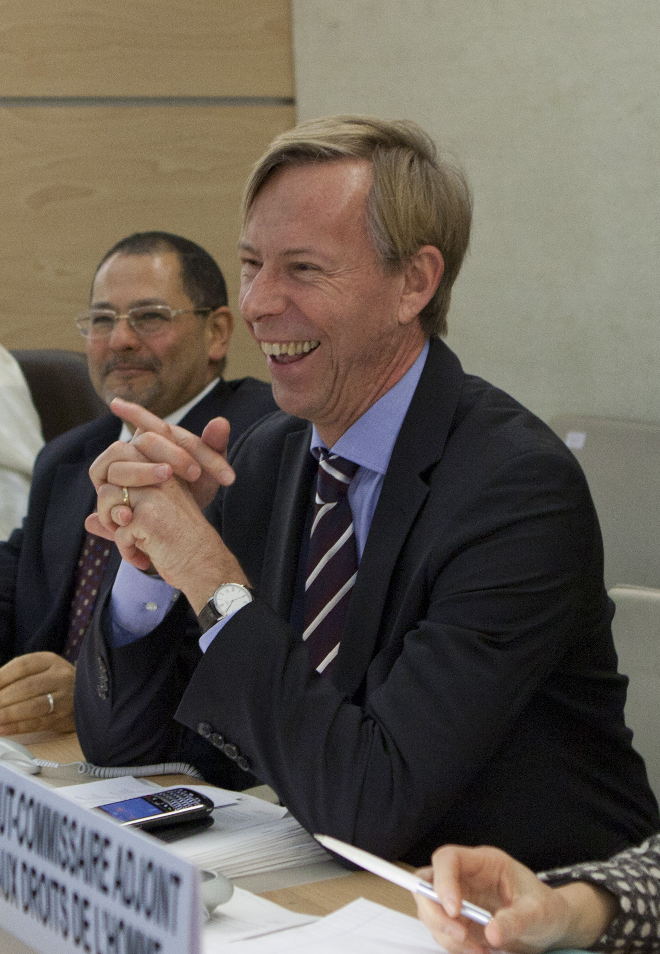 OHCHR’s Anders Kompass on March 2, 2012 at the High Level Segment of the 19th Session of the HRC. U.S. Mission Photo by Eric Bridiers